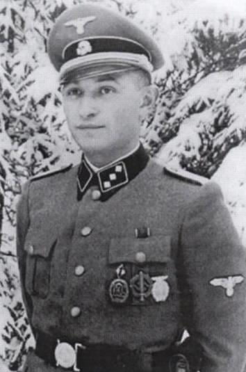 Wilhelm Rosenbaum (1915-19XX), SS Untersturmführer and convicted war criminal, during his time in Bad Rabka (between 1940 and spring 1943).